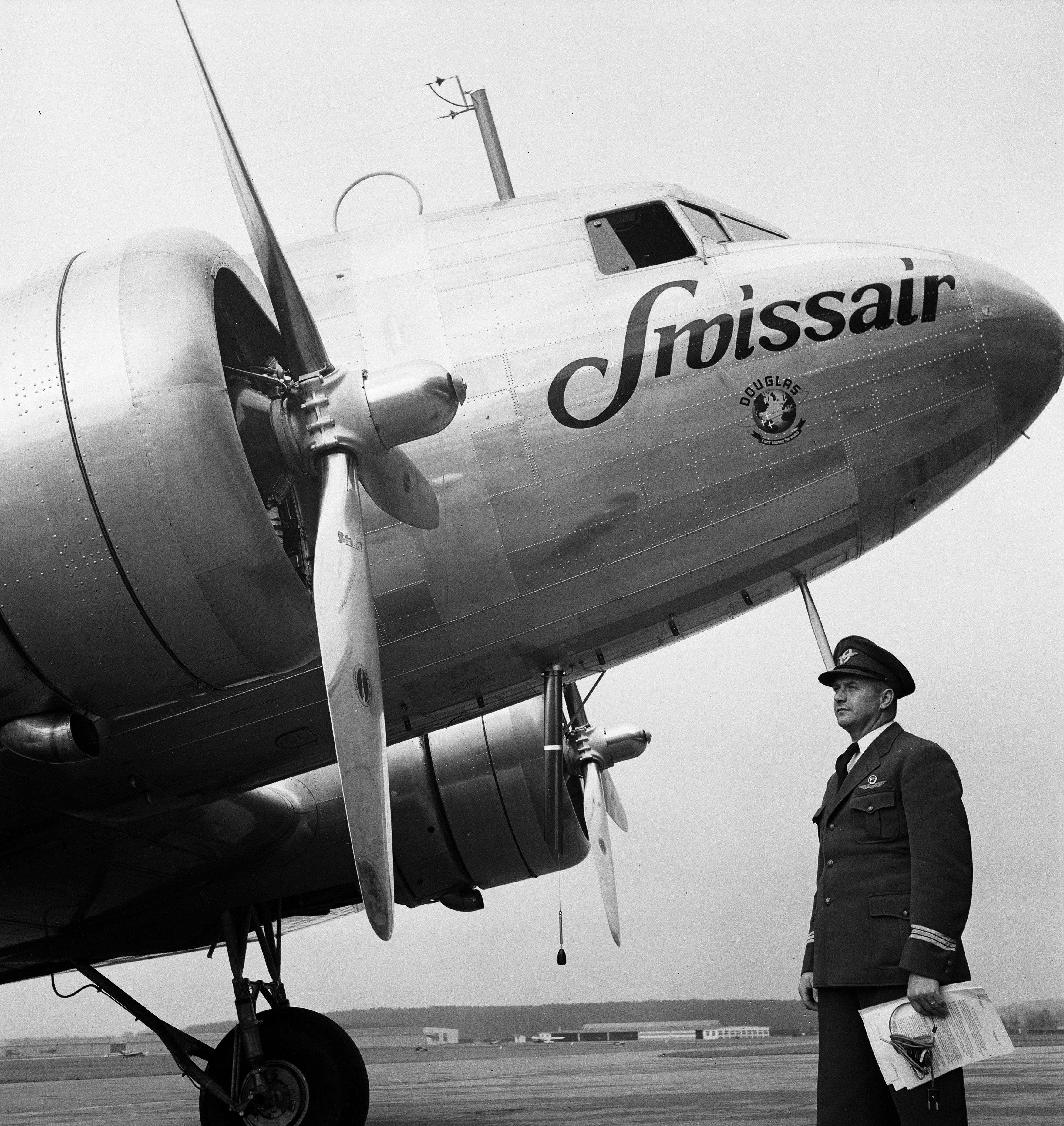 Zeitgenössische Bildbeschreibung des Swissair-Marketings: "Chefpilot Ernst Nyffenegger. Er gehörte dem Pilotencorps der Balair an und wurde 1937 Chef der Navigations-Abteilung, als Nachfolger des verstorbenen Walter Mittelholzer. Nyffenegger ist einer der erfolgreichsten schweizerischen Verkehrsflieger."